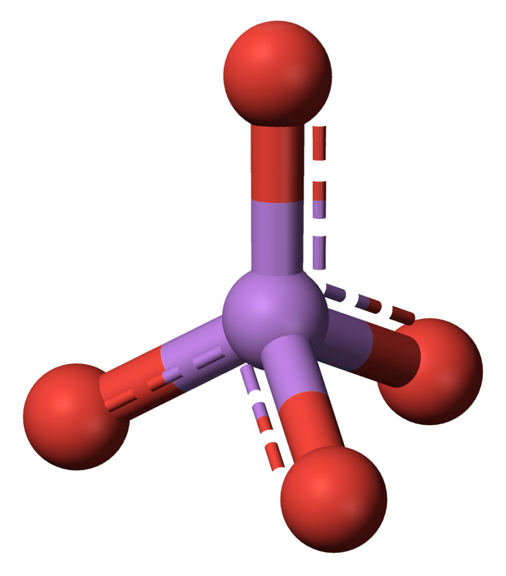 Arsenate-ion molecule model